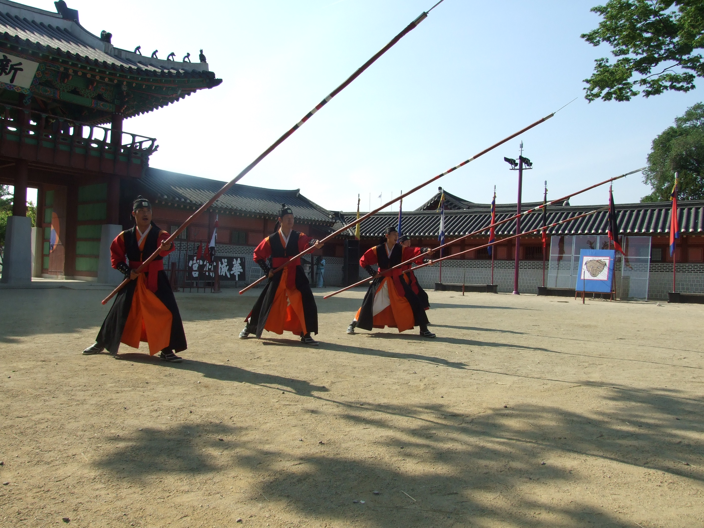 Demonstration of muye24ki taken at the Hwaseong castle in Suwon